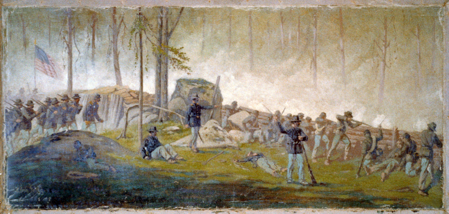 Library of Congress painting, TITLE: Scene behind the breastworks on Culps Hill, morning of July 3rd 1862 CALL NUMBER: DRWG/US - Forbes, no. P07 (D size) [P&P] REPRODUCTION NUMBER: LC-USZC4-958 (color film copy transparency) LC-USZ62-8378 (b&w film copy neg.) RIGHTS INFORMATION: No known restrictions on publication. MEDIUM: 1 painting : oil. CREATED/PUBLISHED: [between 1865 and 1895] CREATOR: Forbes, Edwin, 1839-1895, artist. NOTES: Gift, J.P. Morgan, 1919 (DLC/PP-1919:R1.1.289) Forms part of: Civil War drawing collection. SUBJECTS: Battlefields--1860-1900. United States--Pennsylvania--Gettysburg FORMAT: Oil paintings American 1860-1900. PART OF: Civil War drawing collection REPOSITORY: Library of Congress Prints and Photographs Division Washington, D.C. 20540 USA DIGITAL ID: (color film copy transparency) cph 3b52464 (b&w film copy neg.) cph 3a10986 CONTROL #: 2004661576